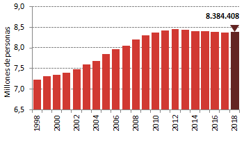 Population in Andalusia in February 2019